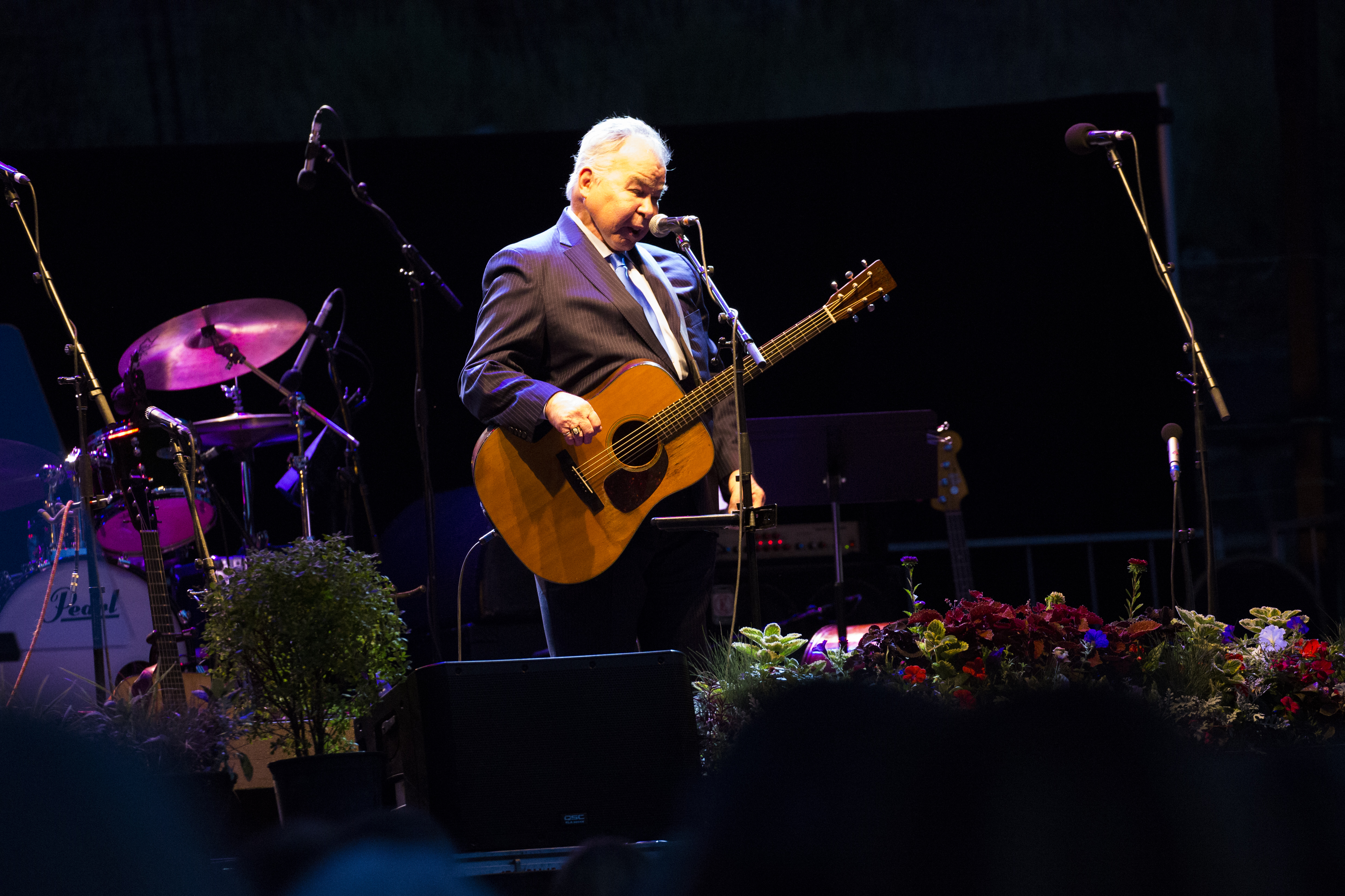 John Prine performing